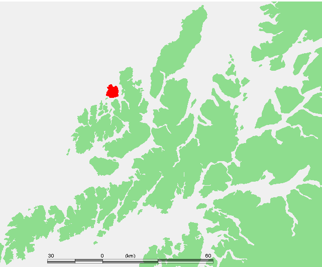 Island of Norway - Skogsøya